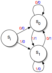 Example of a simple Mealy machine with one entry and one exit. The entry values are indicated in red, and the port values are indicated in blue. The machine starts in Si mode. The port value is the output of the last two entry values; therefore, this machine actually implements an edge detector. The machine emits one when the input value is reversed, or it emits zero.